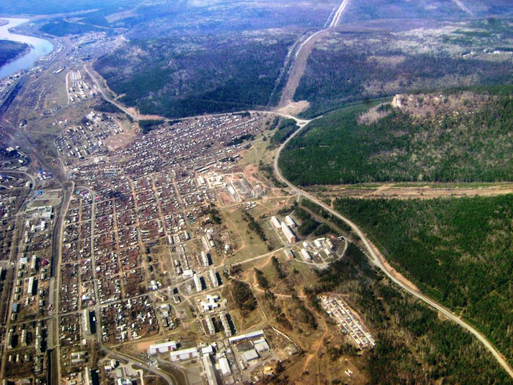 Flight over the town Ust-Kut. The Lena River